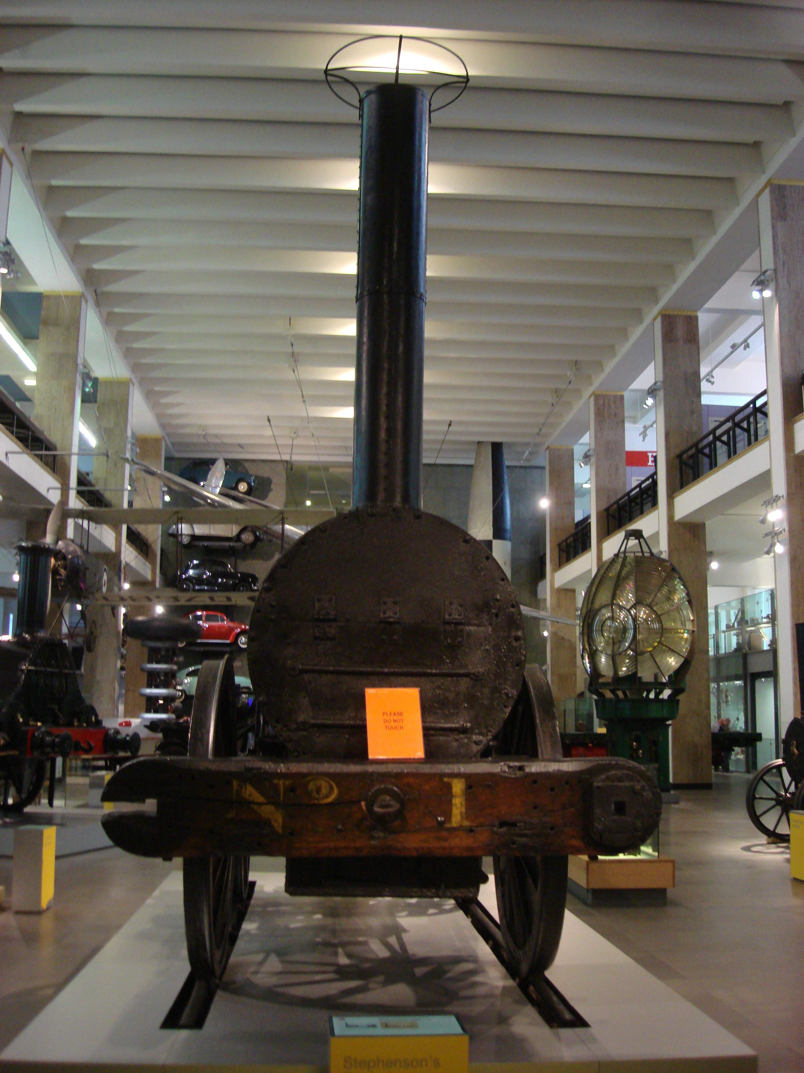 Stephenson's Rocket at the Science Museum (London)